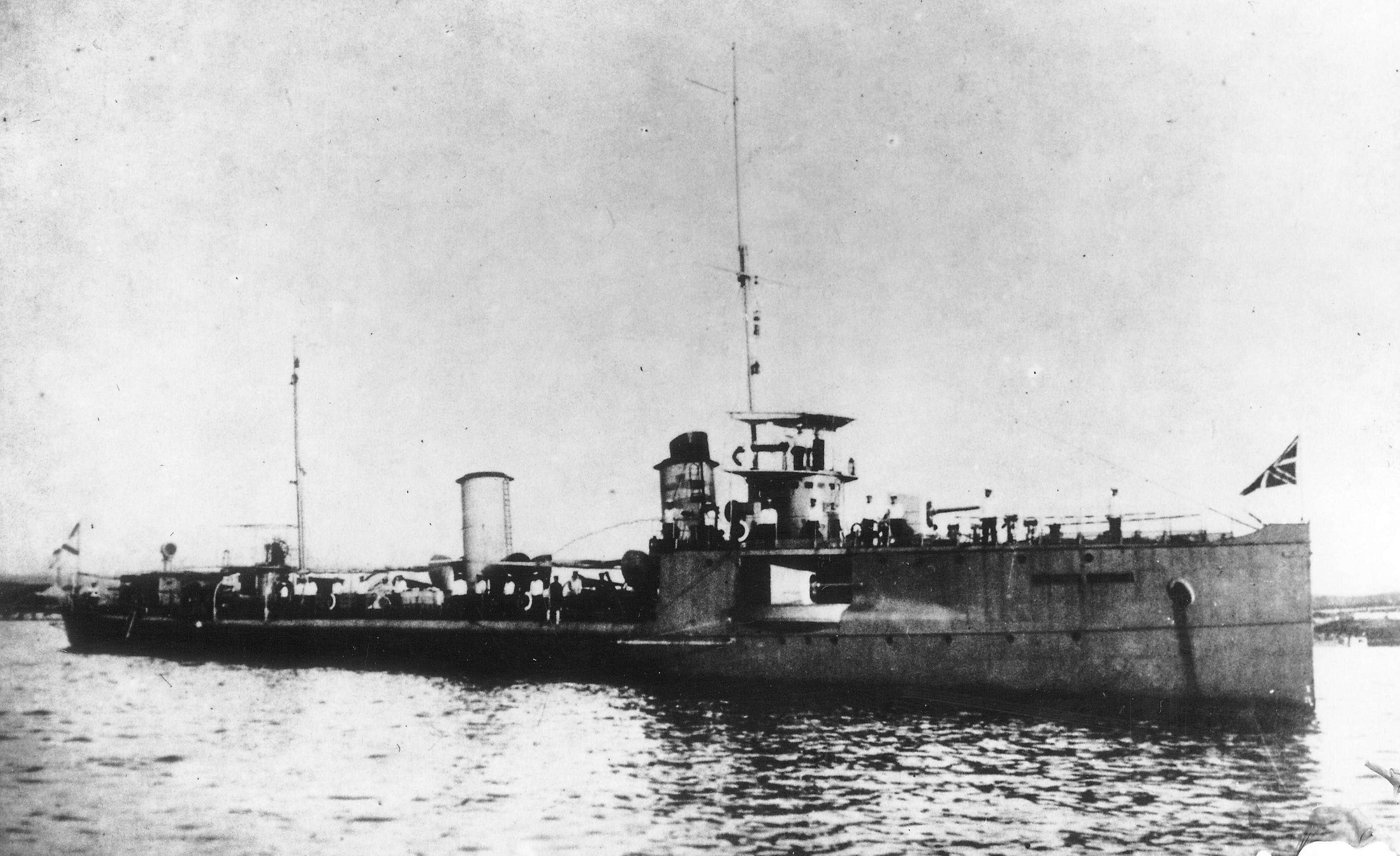 Imperial Russian destroyer Leytenant Shestakov.